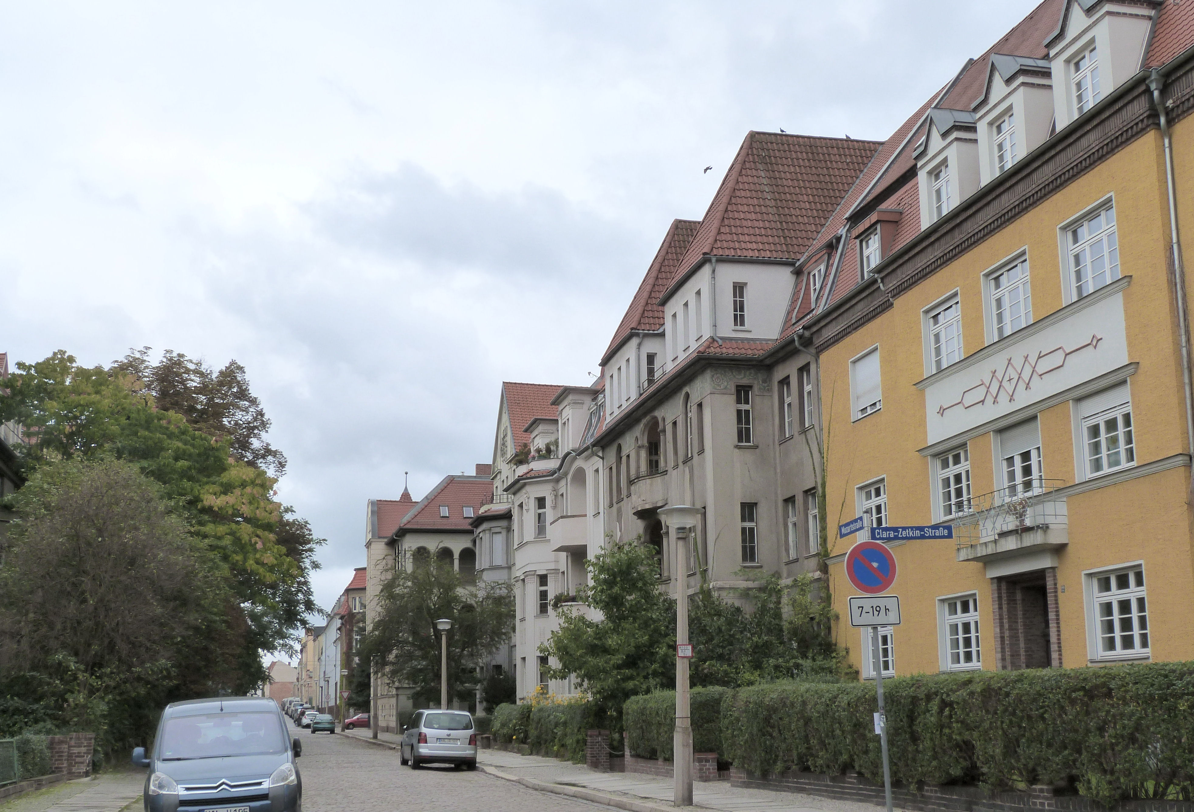 Mozartstrasse in Halle (Saale), Saxony-Anhalt